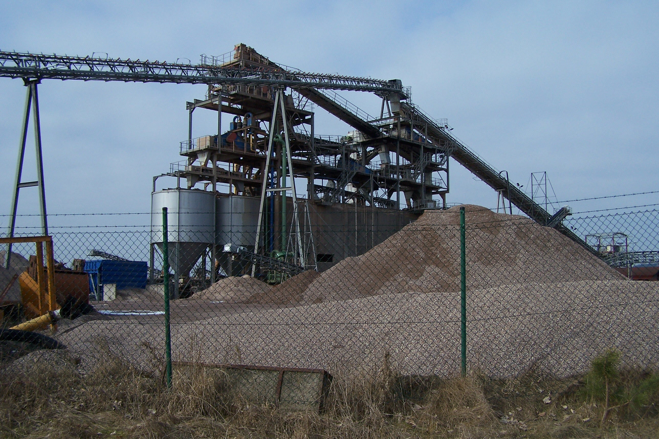 A gravel works near Immelborn.